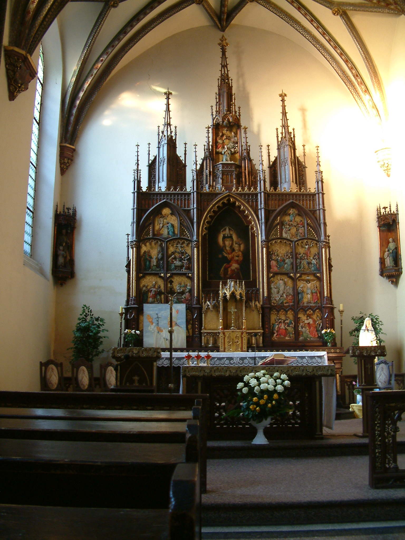 Church of Holliest Heart of Jesus and Mother of God of Consolation in Poznań, Chapel of Our Lady of Rosary